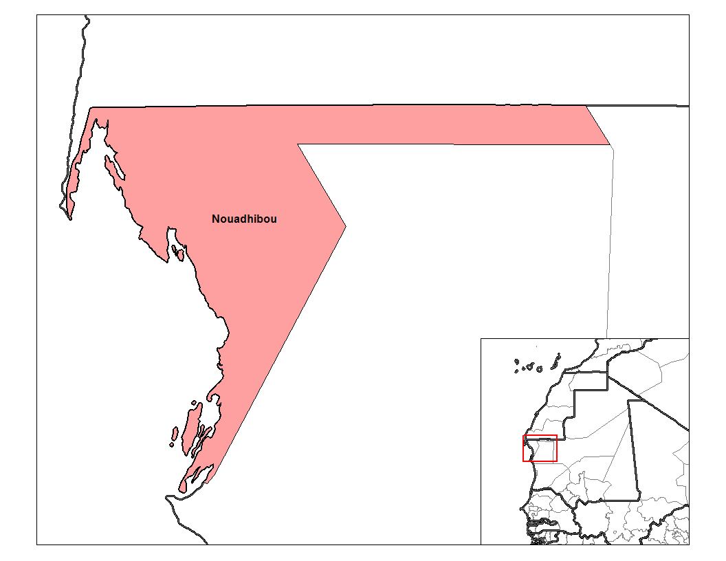 Map of the Dakhlet Nouadhibou department of Mauritania. Created by Rarelibra 20:10, 28 September 2006 (UTC) for public domain use, using MapInfo Professional v8.5 and various mapping resources.